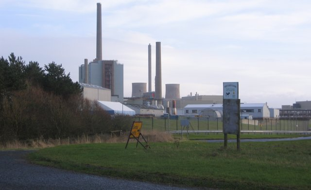 From the Mid Tarn Farm Turnoff.